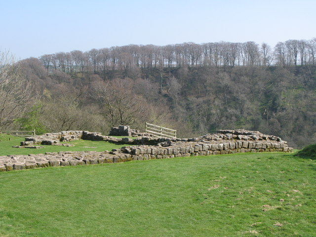 Milecastle 49 (Harrow's Scar)